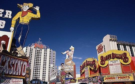 Postcard of the former Pioneer Club (left) in 1973 — with other casinos, on Fremont Street in Downtown Las Vegas, Clark County, Nevada. Pioneer Club's neon cowboy sign is known as Vegas Vic, now restored and relocated to the Fremont Street Experience pedestrian mall.